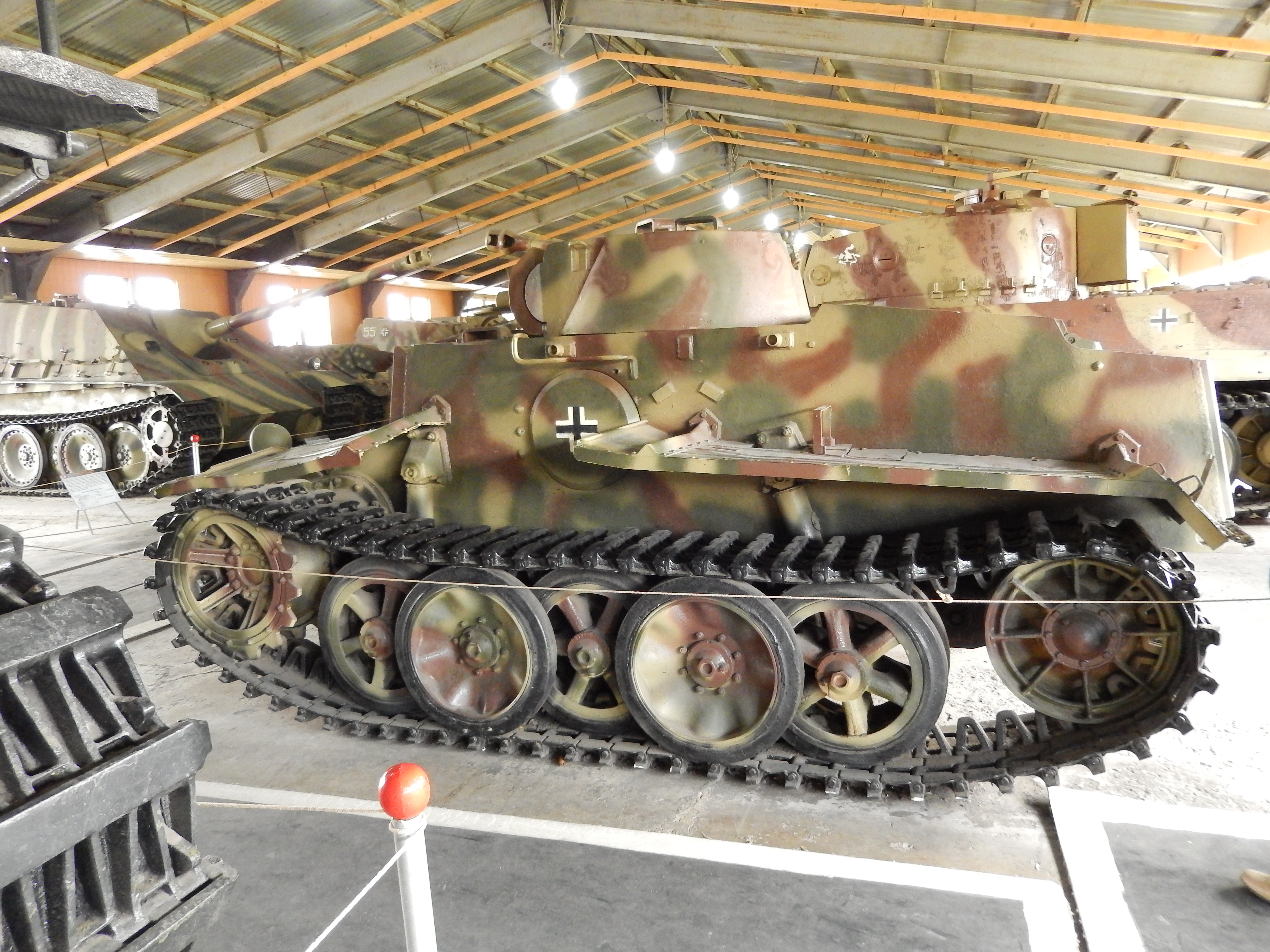 Pz.KpfW.I Ausf.F in a museum in Kubinka